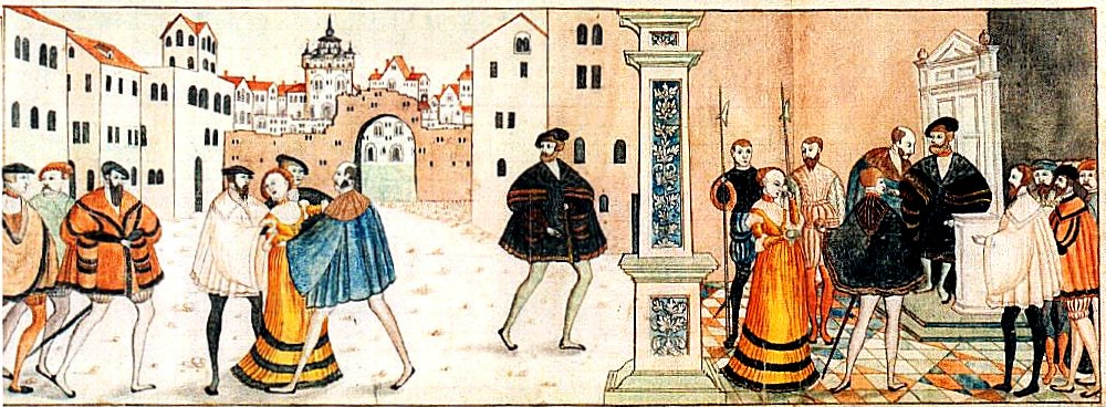 Part 1 of a five part series whereby Swedish monarch Gustav Vasa shows how he triumphed. The images were originally made during the reign of Gustav Vasa -- the last image shows event occurring in the 1540's. This image is believed to show Stockholm in 1525. The lady in yellow dress symbolizes the Catholic Church whom Gustav now overpowers.